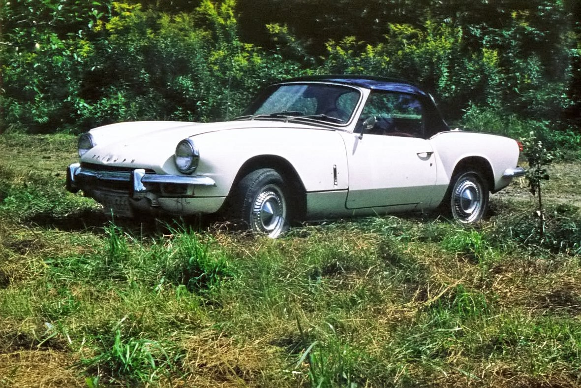 1968 Triumph Spitfire Mk III with hard top and red leather interior. My first car purchased in 1973. Picture taken in 1974 or 1975. Shown with removable hard top. I believe this was on an apple picking trip.